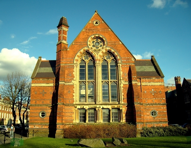 The Old Library, Queen's University. Western facade of the original library of the Queen's University of Belfast. It was constructed 1865-68 to a design by Lanyon, Lynn and Lanyon with later additions (1911-14) by Lynn and (1951) by John MacGeagh. While it looks very much like a converted chapel, the building has always been a library; inside it has been sadly altered by modern restructuring. Queen's has many different libraries spread throughout the campus - this is now part of the Main Library. See also 717216.